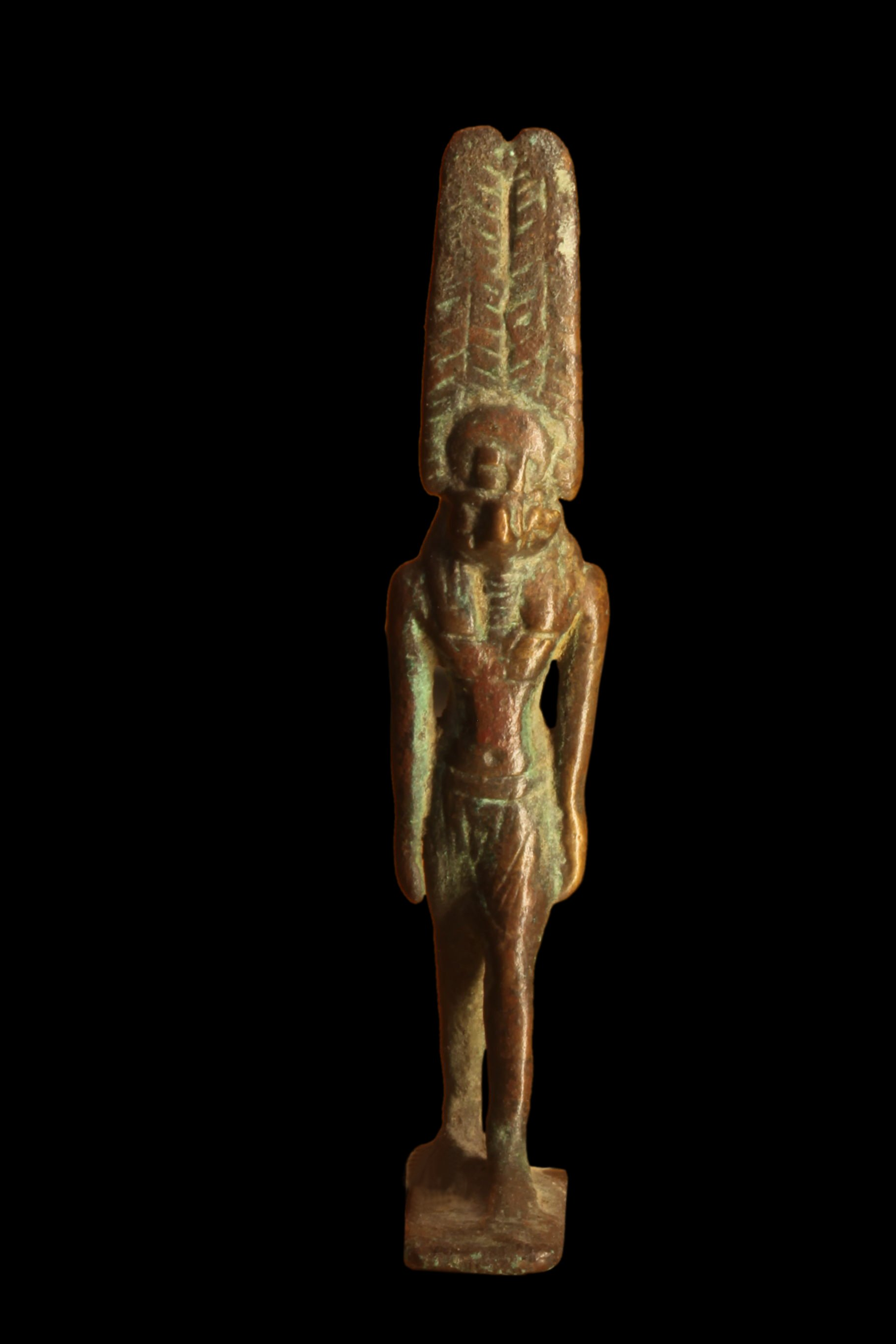 Monthu with a falcon head